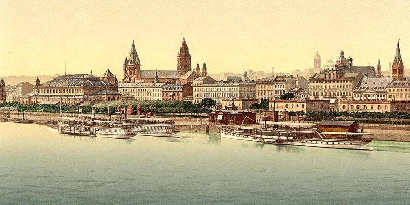 Historical excursion riverboats on the Rhine, docked in front of the old town of Mainz, Germany. The area still looks remarkably like this today, and even the riverboats (of a newer breed) are still there.